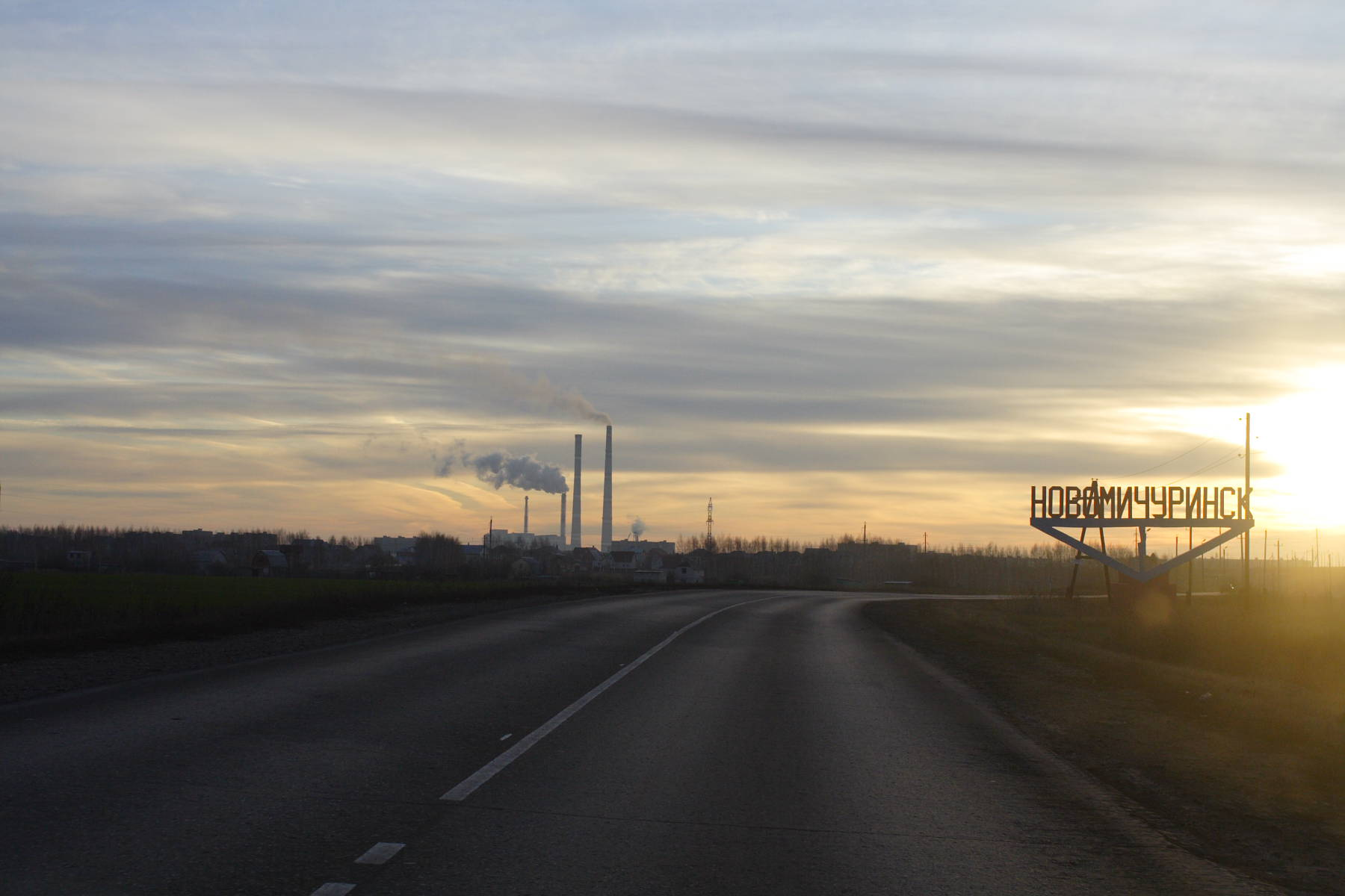 Town sign at entrance to Novomuchurinsk, Ryazan region, Russia.